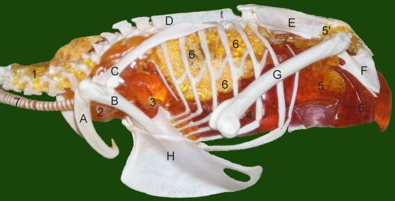 airsacs of a Common Kestrel (Falco tinnunculus) cervical air sac clavicular air sac cranial thoracal air sac caudal thoracal air sac abdominal air sac (5' diverticels into pelvic girdle) lung trachea A clavicula (furcula) B coracoid C scapula D notarium (fused thoracal vertebrae) E synsacrum F pelvic bones G femoral bone H sternum